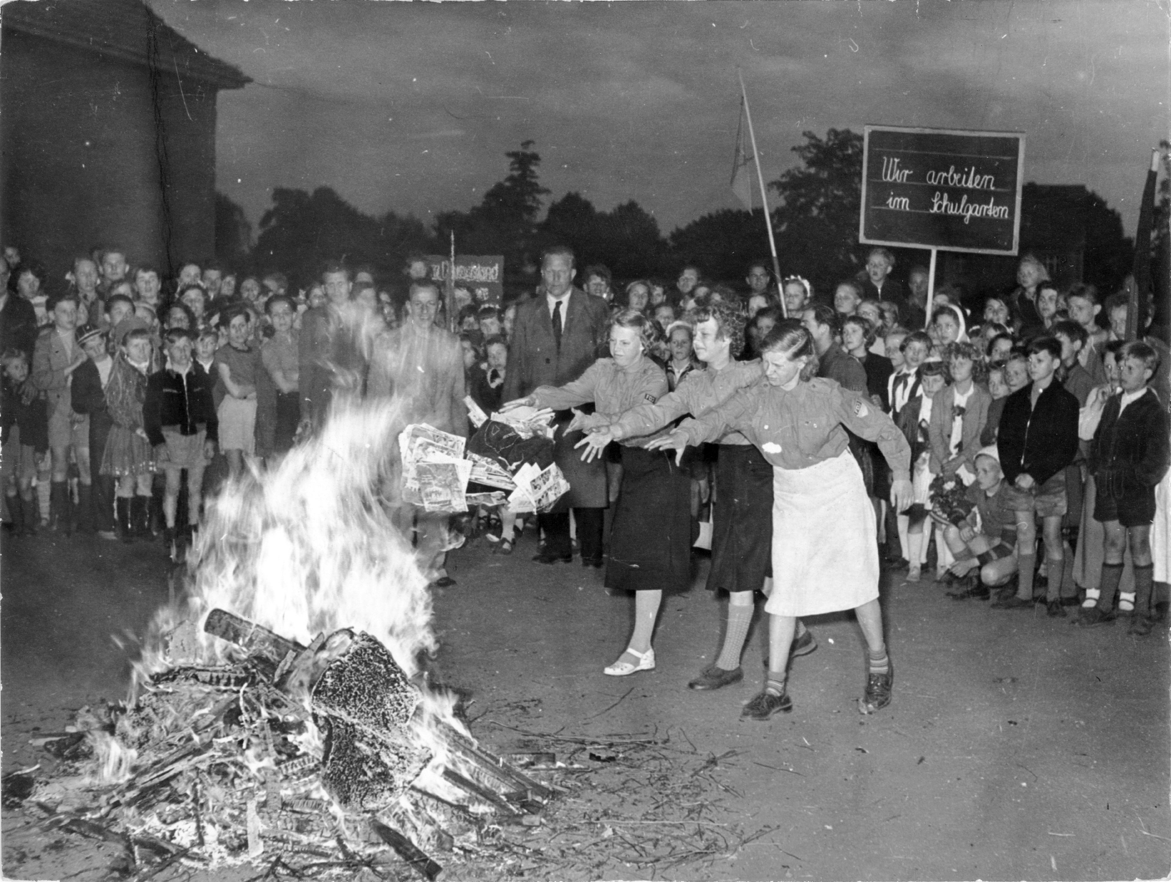 Burning of "dirt and trash literature" at the 18th Elementary school in Berlin-Pankow (Buchholz), on the evening of International Children's Day, June 1st, 1955. It was the first of a wave of initiatives by the Parents-Teachers Association (Elternversammlungen), to legally ban "trash and filth".